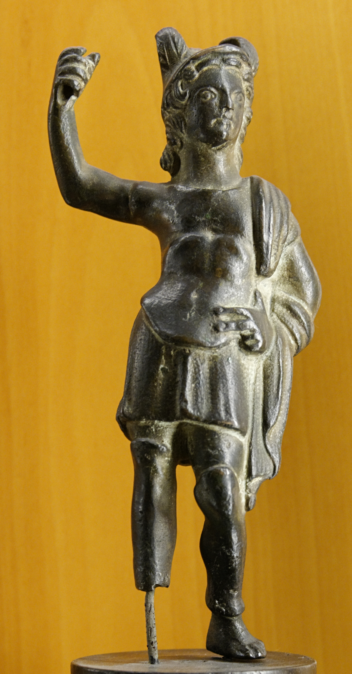 Mars wearing a breastplate, Ancient Roman bronze figurine.